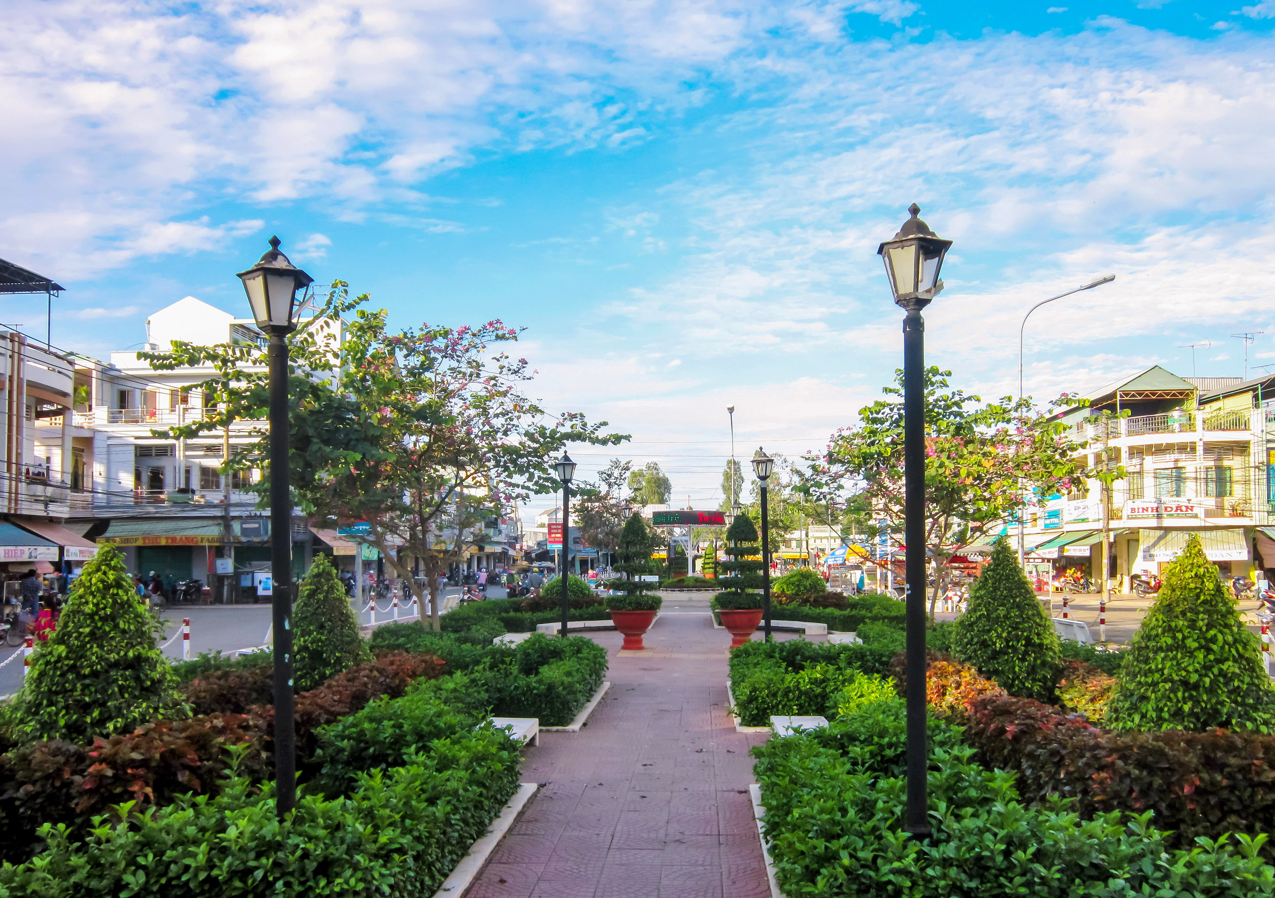 Công viên trung tâm ở thị trấn An Phú, thuộc huyện An Phú, An Giang, Việt Nam.